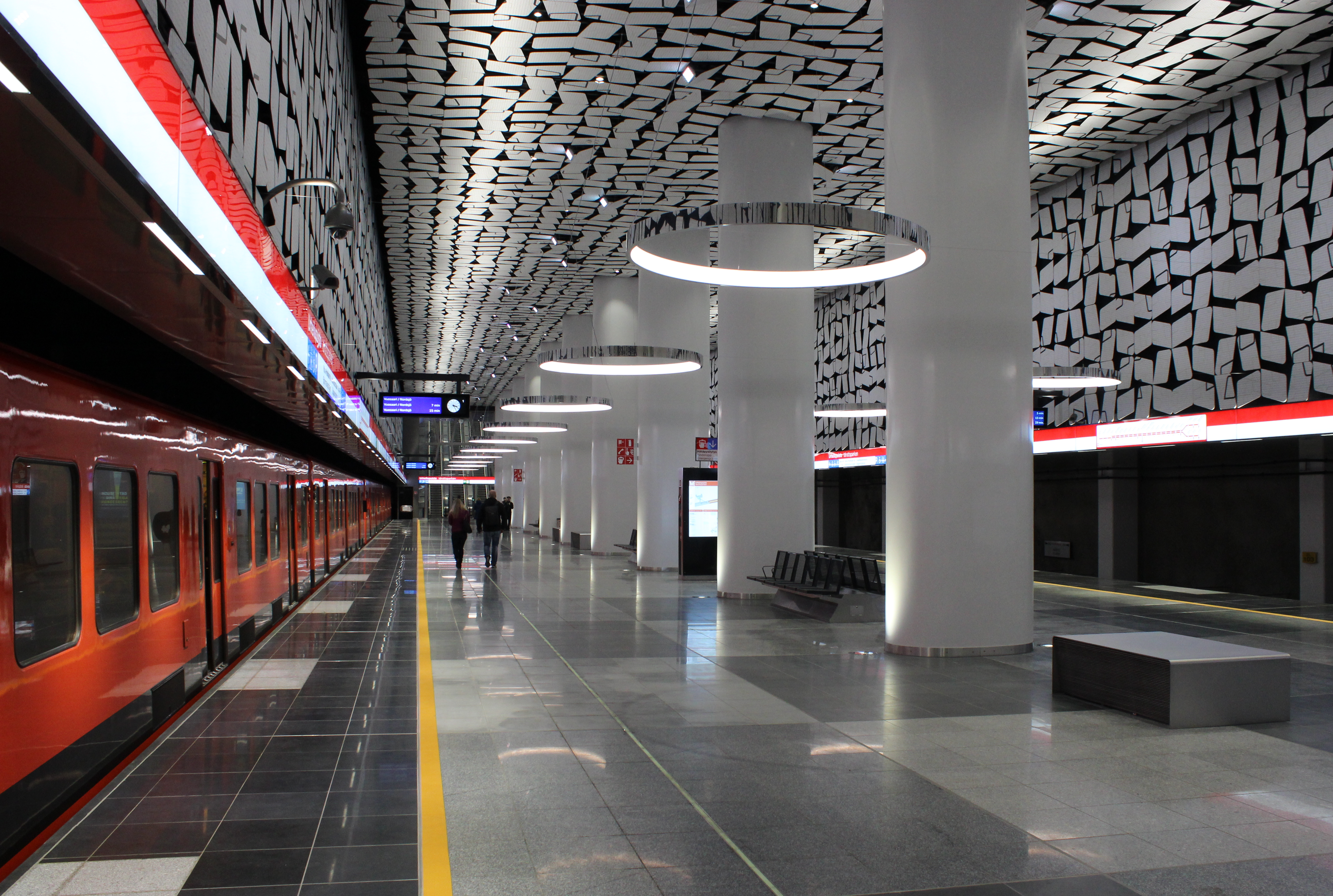 Urheilupuisto metro station in November 2017. The station is part of the Western metro extension (Finnish: Länsimetro) of the Helsinki Metro.